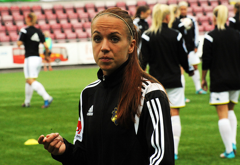 AIK footballer Malin Levenstad